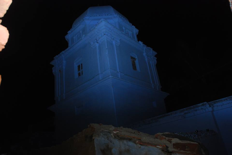 valayair temple